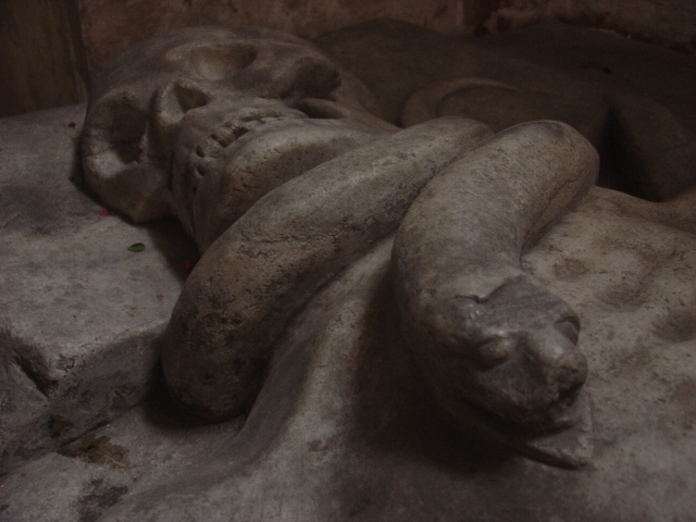 Detail of Jan Hasistejnsky tomb in Kadaň.